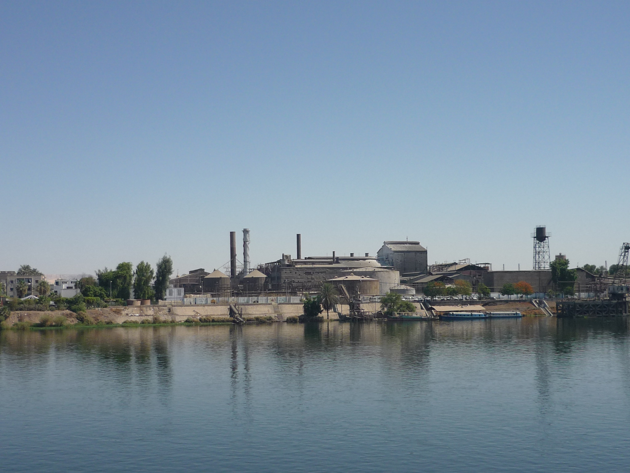 Sugar plant near Armant, Egypt